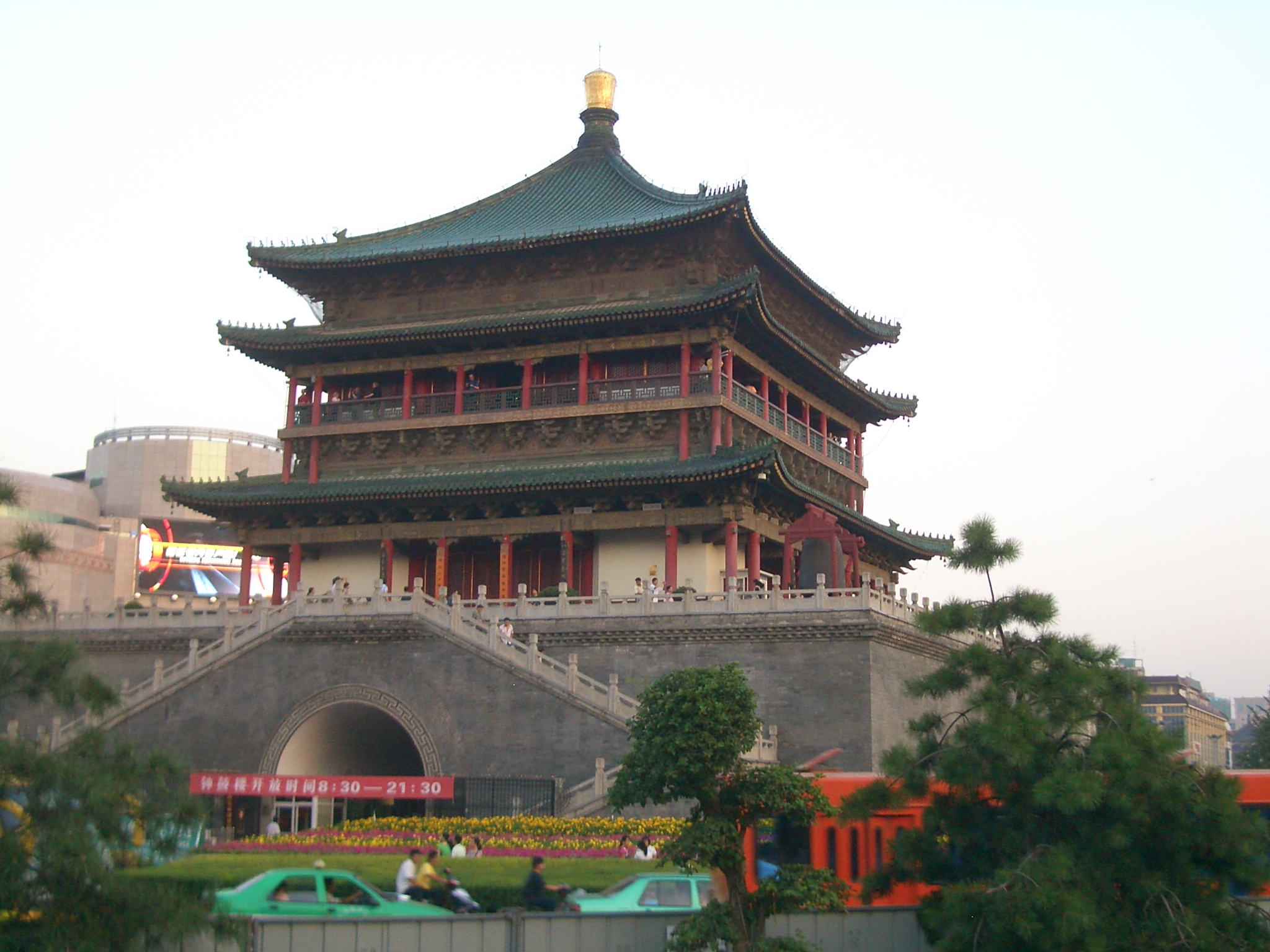 Xi'an Bell Tower